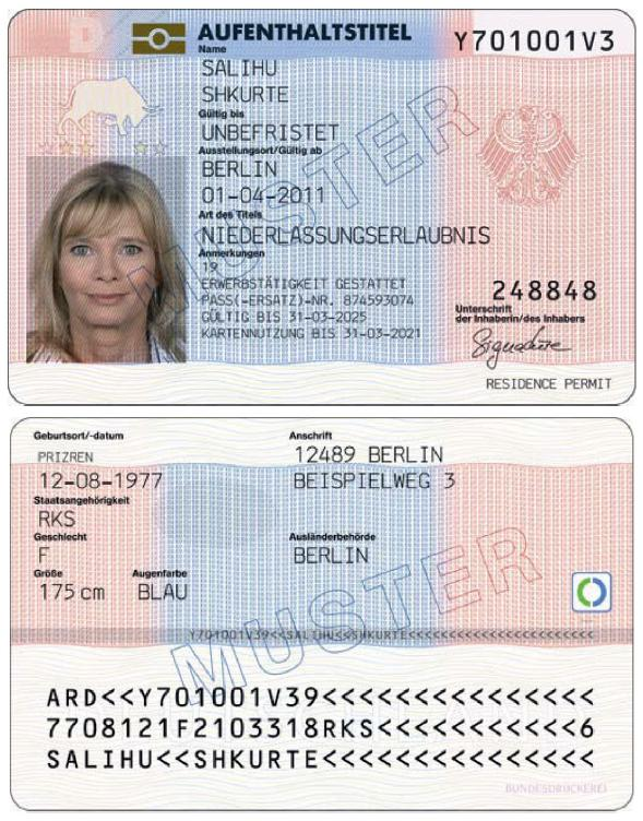 Residence permit (Right of establishment), card type, in Germany